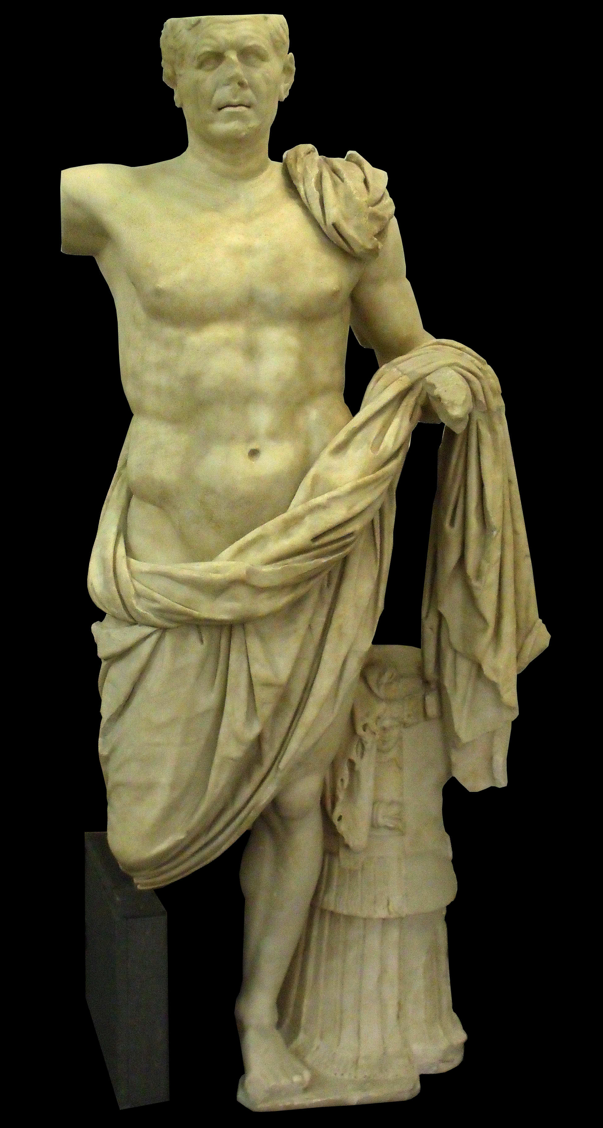 Picture of the General found in Tivoli and on display in the Roman National Museum in Rome. The statue bears a head in the Republican traditional style, while the body shows the use of the classical Greek style.